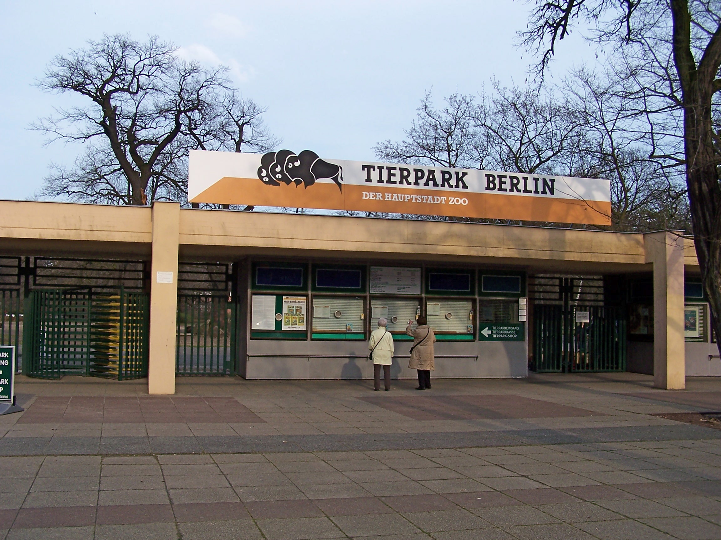 Main entry of Tierpark Berlin